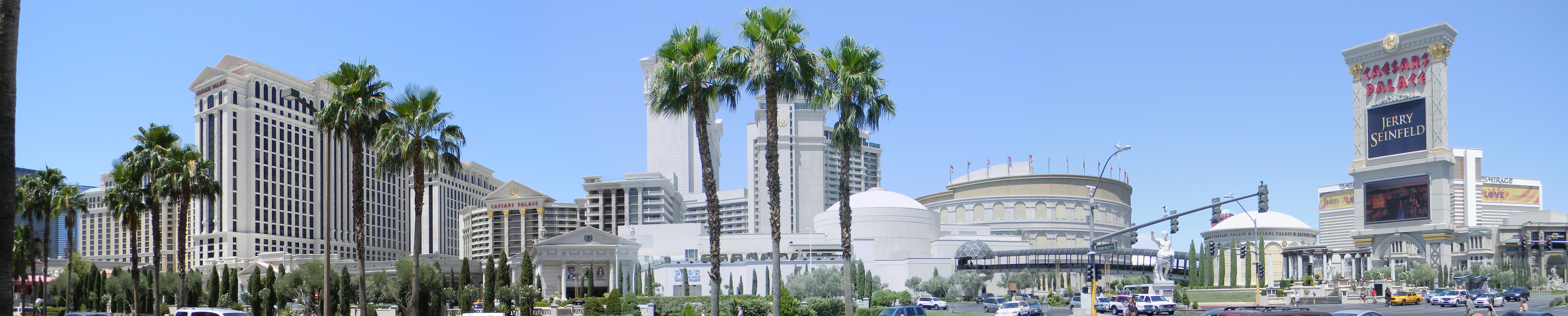 Caesars Palace Casino-Hotel (Las Vegas, Nevada) Panorama View from The Strip